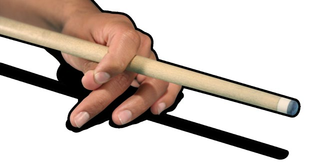 billiard